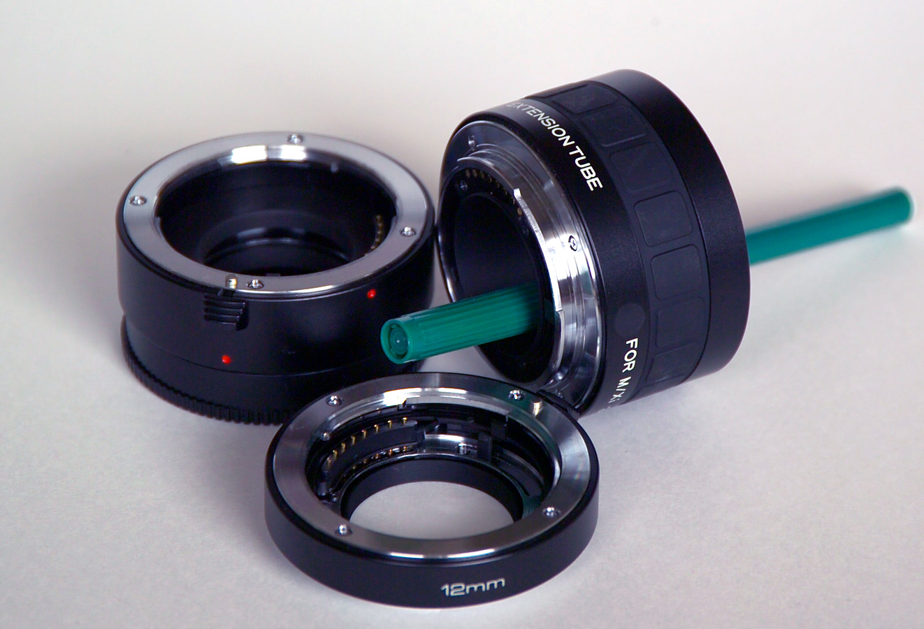 Extension tubes for SLR camera lenses. An extension tube attaches to the body of a single-lens reflex camera; the lens attaches to the tube. Extension tubes come in various lengths and contain no glass (as the pen indicates). These use bayonet-type lens mounts.